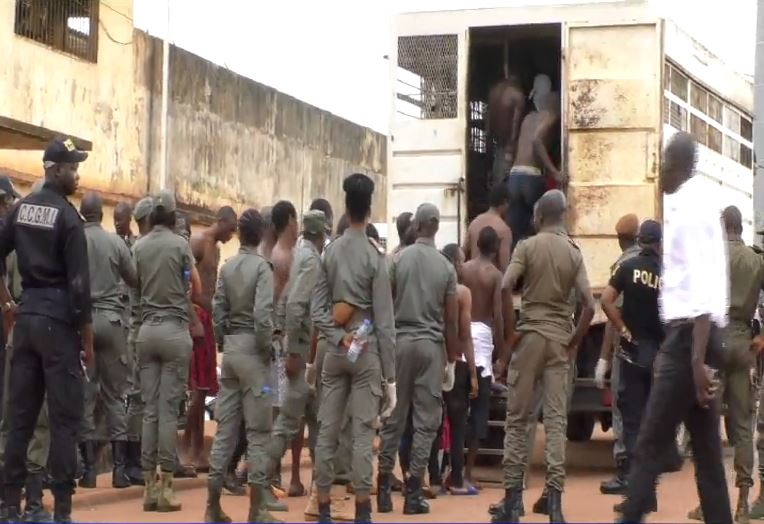 Police forces are deployed at the Kondengui Central Prison in Yaounde, Cameroon, July 23, 2019.